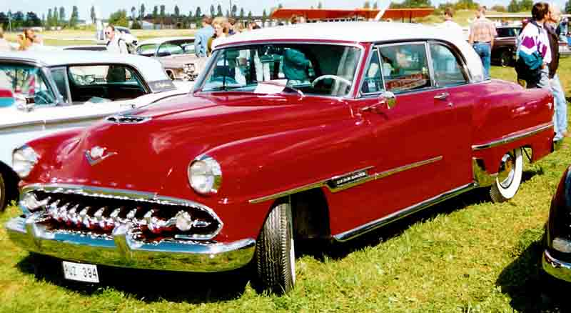 De Soto Firedome 1954